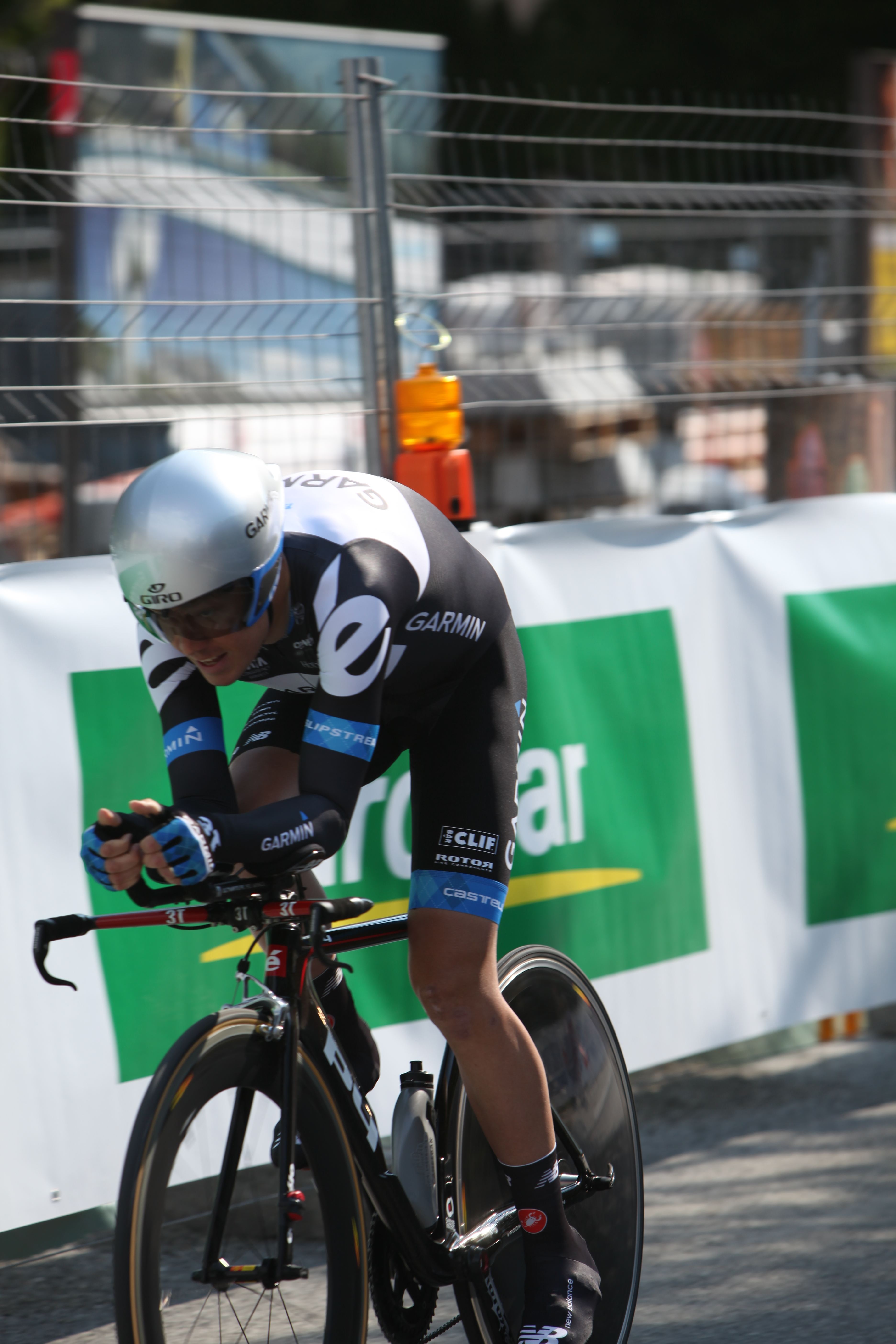 Tom Danielson at the prologue of the Tour de Romandie 2011